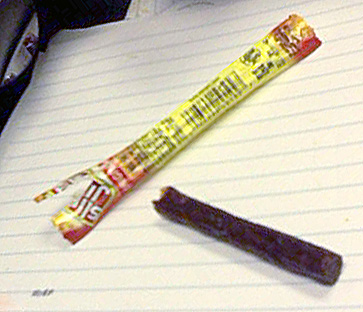 This is partially eaten "Slim Jim" snack manufactured by ConAgra Foods inc.